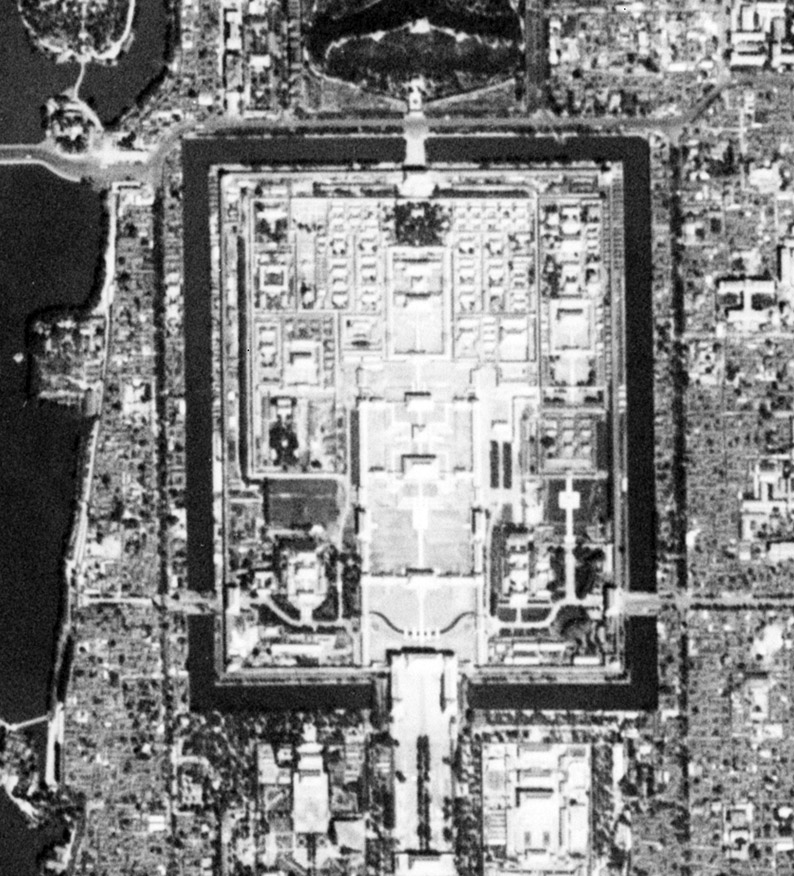 Forbidden City. Spatial tentatively corrected. 中文（中国大陆）: 故宫博物院。空间上尝试性矫正过。